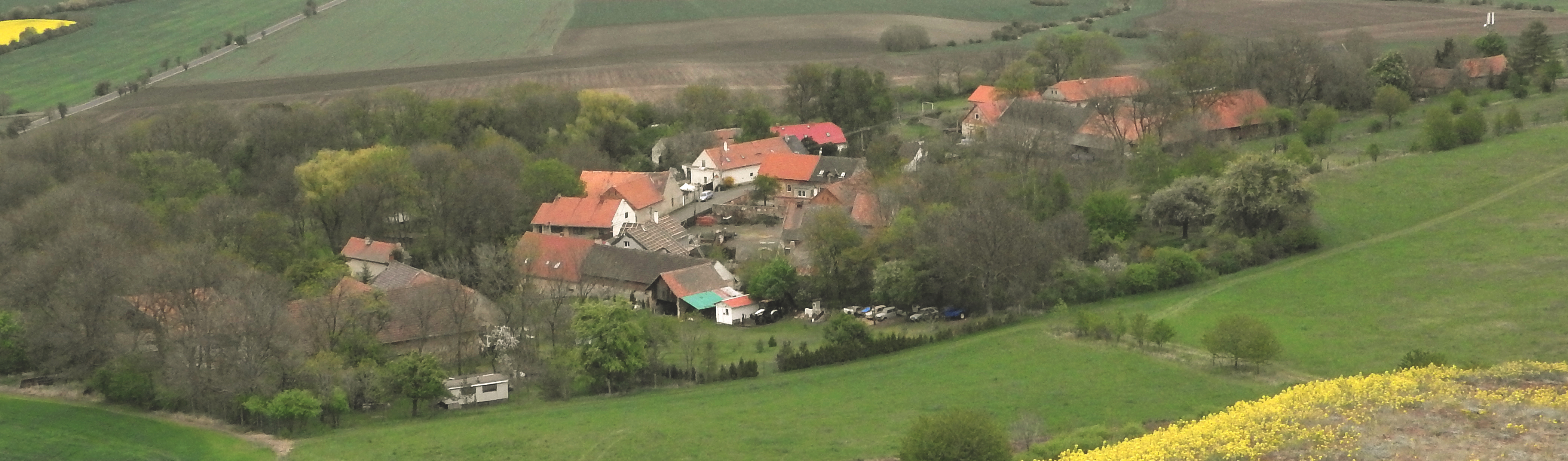 Village Hořenec (Libčeves), view from Číčov hill, spring 2020.